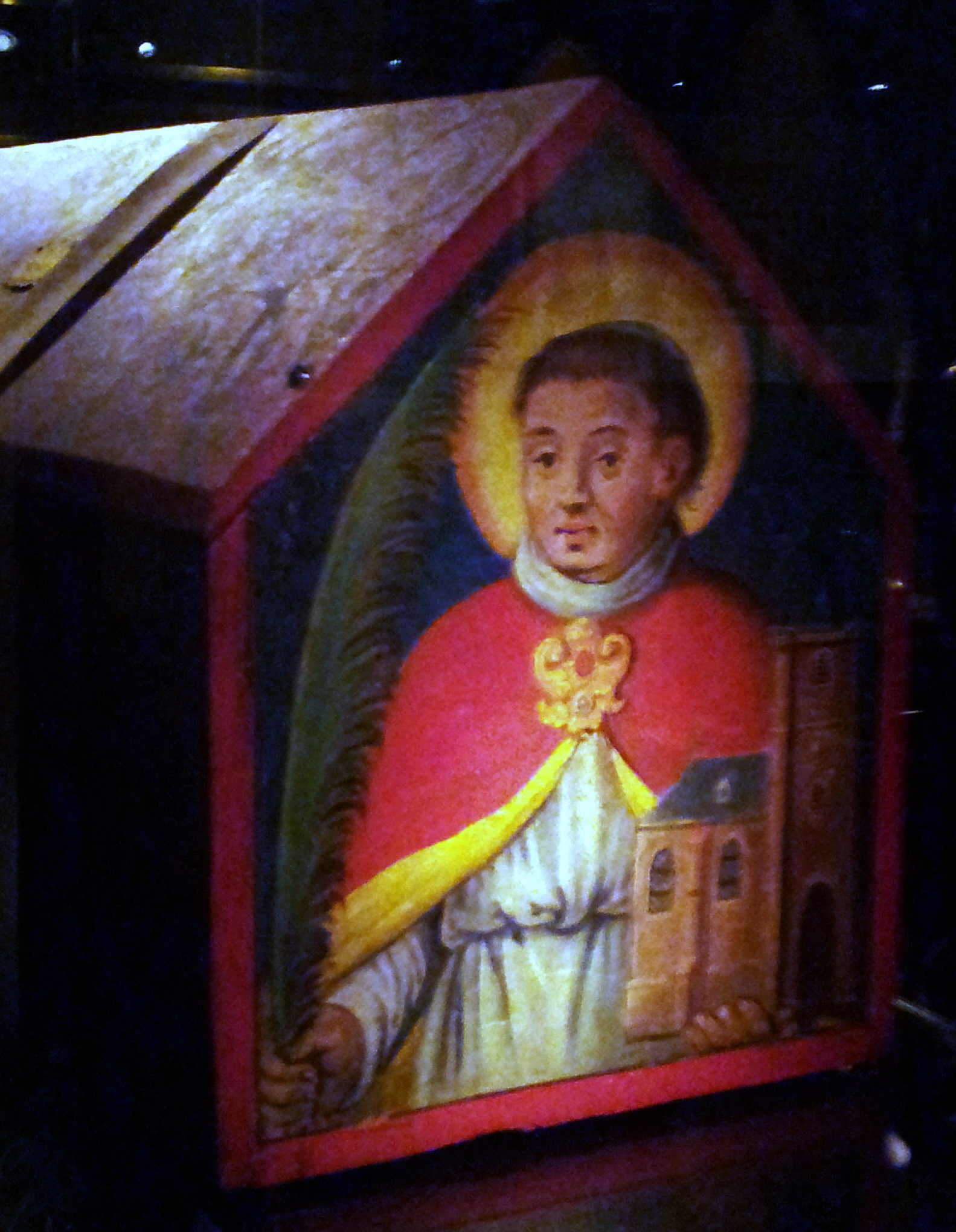 Treasury of Onze-Lieve-Vrouwekerk, Sint-Truiden, Belgium. Painted portrait of Saint Trudo on reliquary chest.